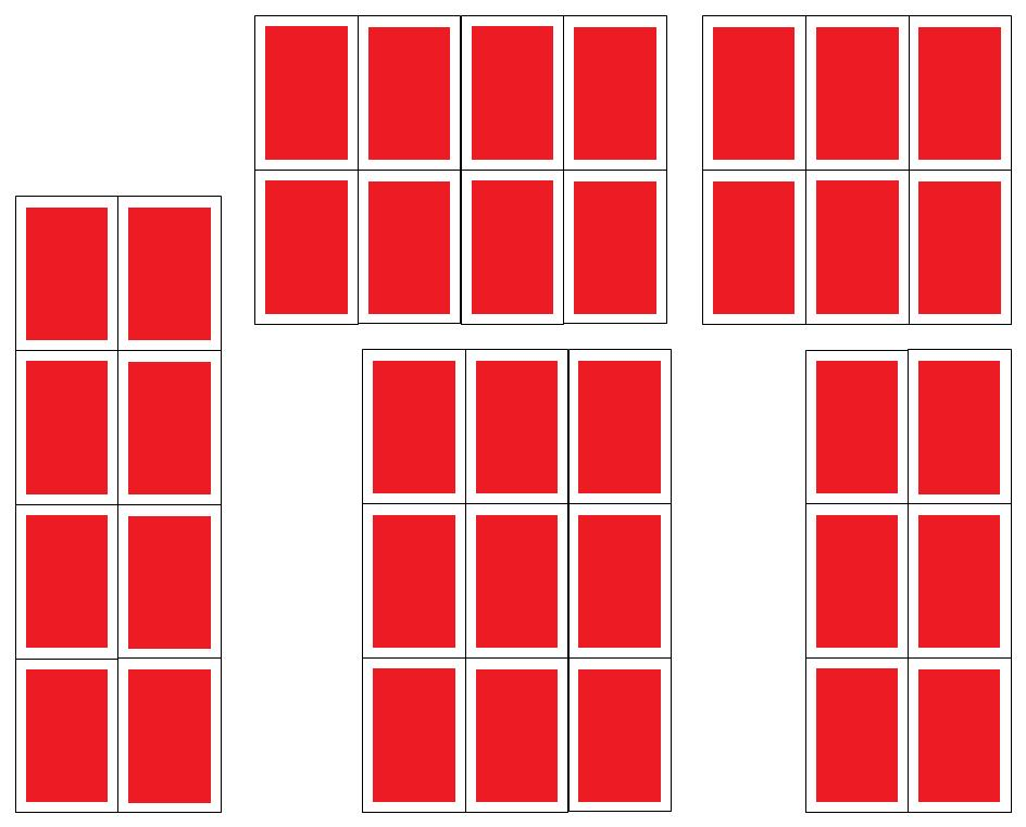 Schemes of two 6-block types, two 8-block type, and 9-block